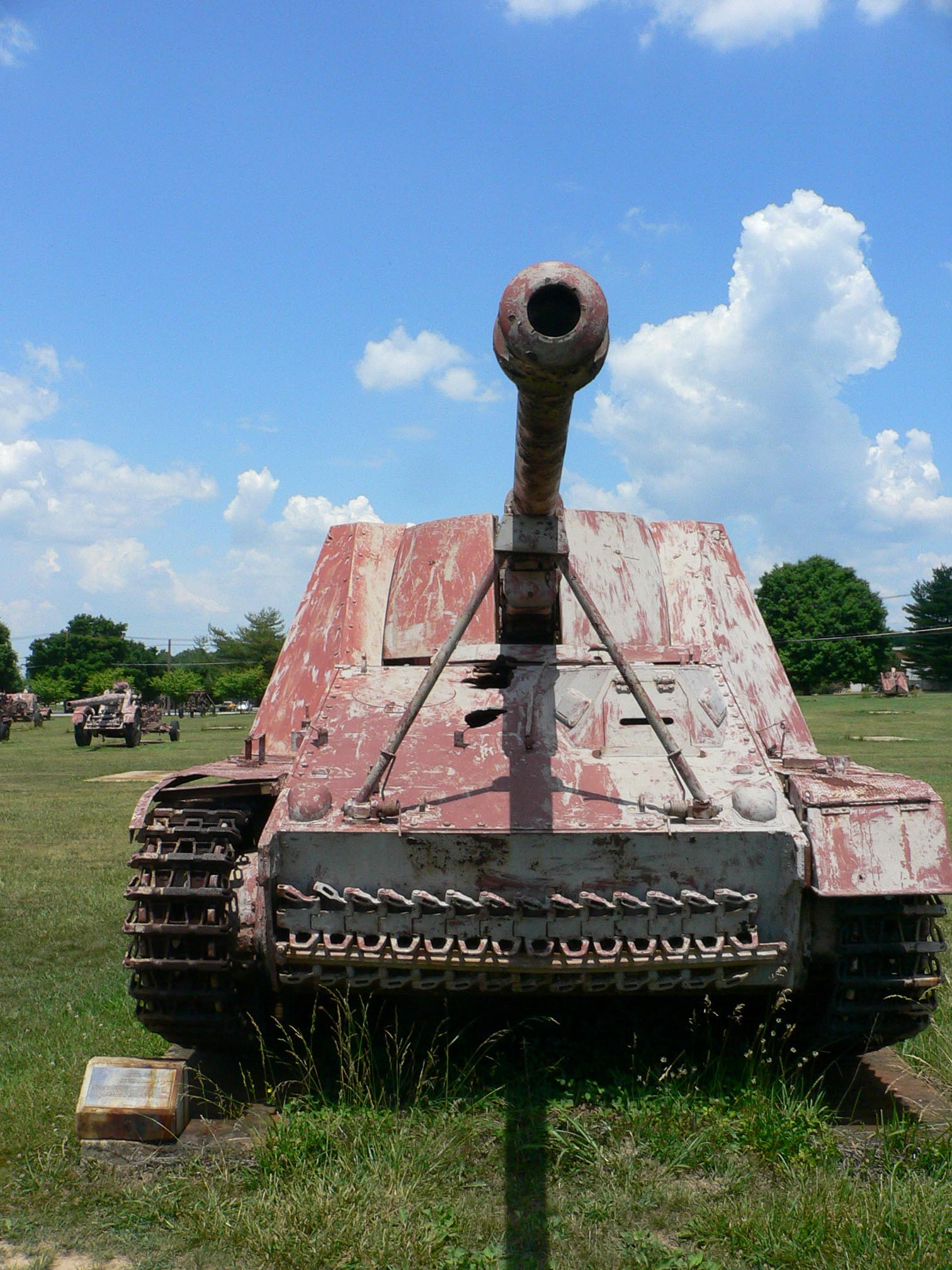 Picture taken by myself, Mark Pellegrini, at the United States Army Ordnance Museum (Aberdeen Proving Ground, MD) on June 12, 2007.